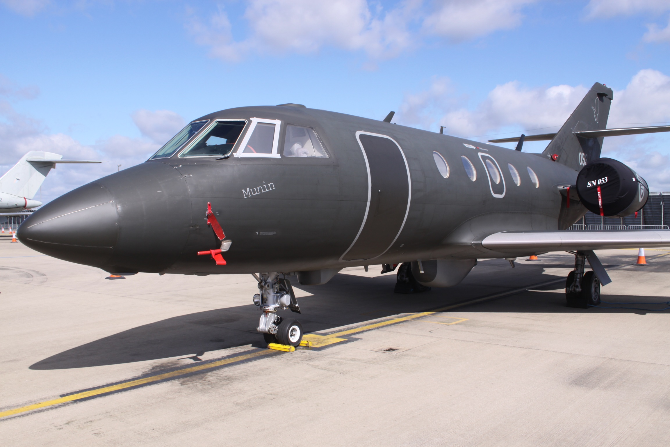 At RAF Waddington